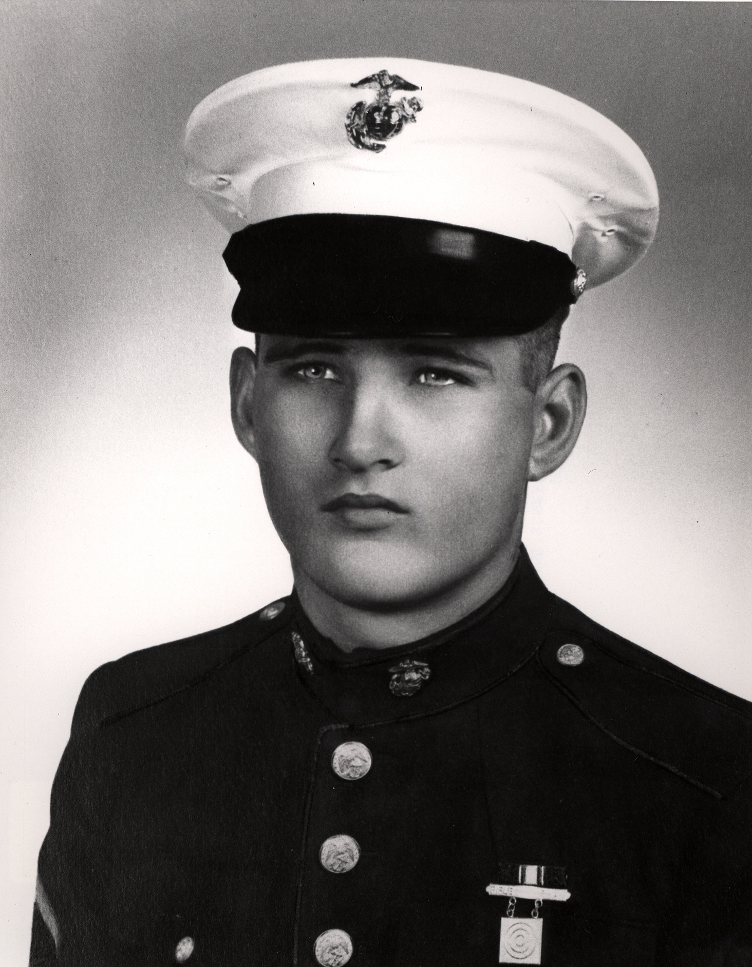 Robert C. Burke, USMC, Medal of Honor recipient